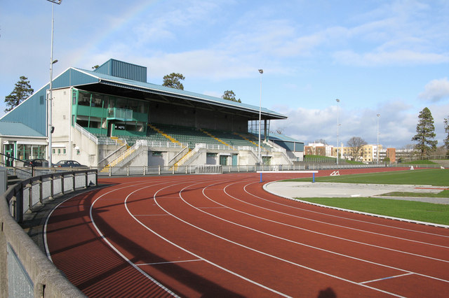 Morton Stadium, Santry, Dublin, Ireland. The stadium was used for the 2003 Special Olympics World Games.